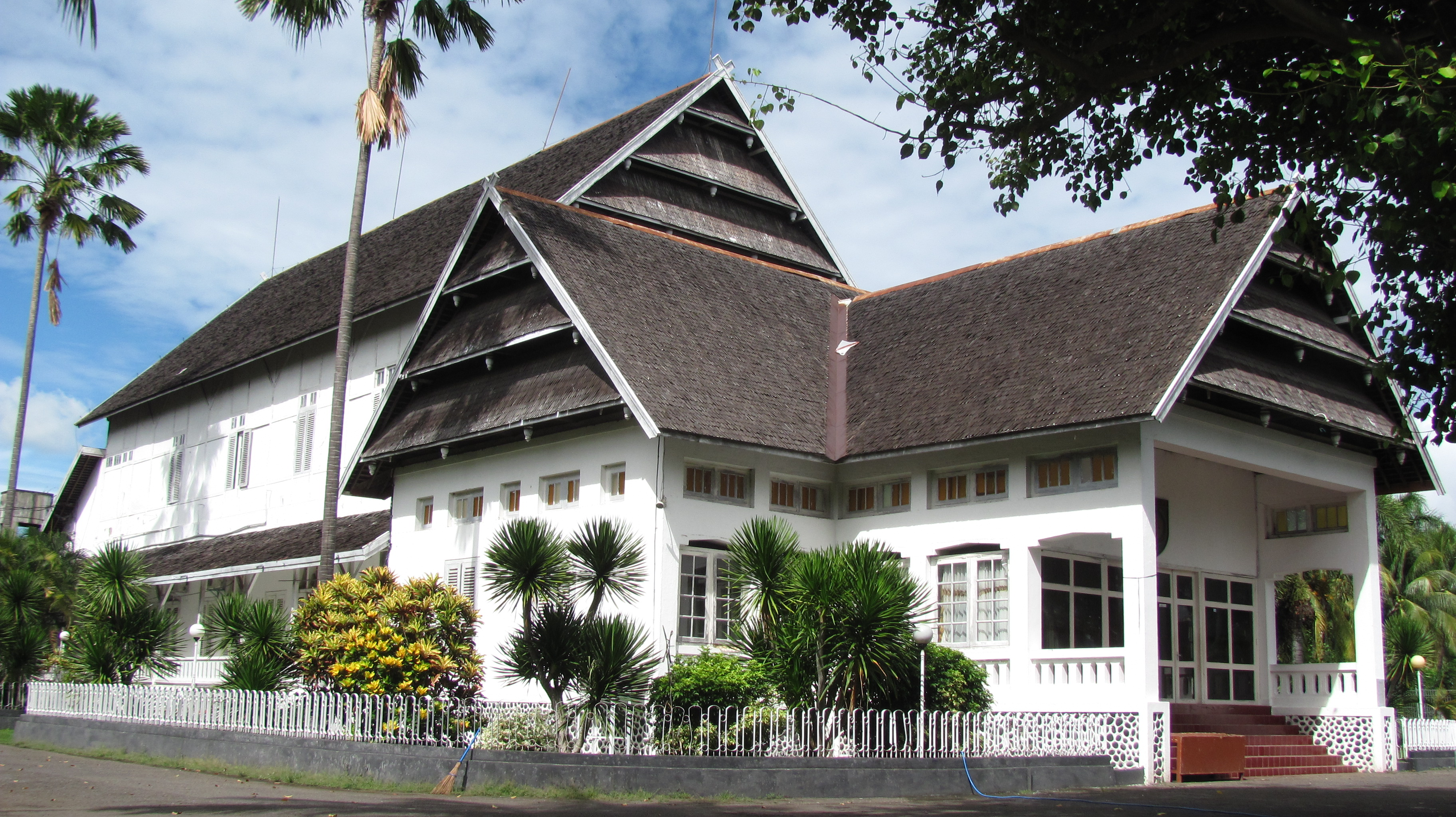 Balai Kuning Building (built by the Dutch 1932) in Sumbawa Besar, Sumbawa Island, Indonesia